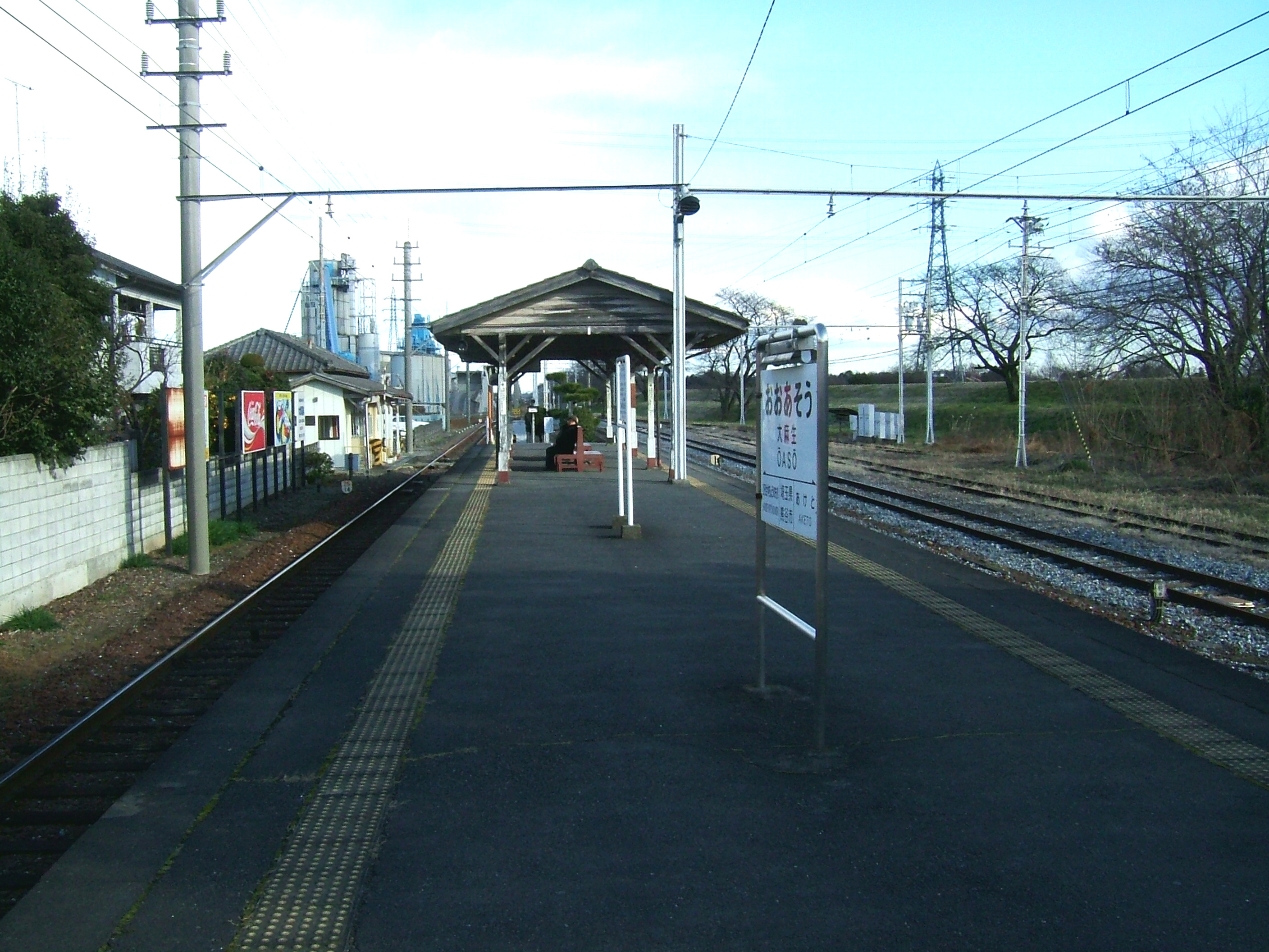 The platform at Ōasō Station on the Chichibu Main Line